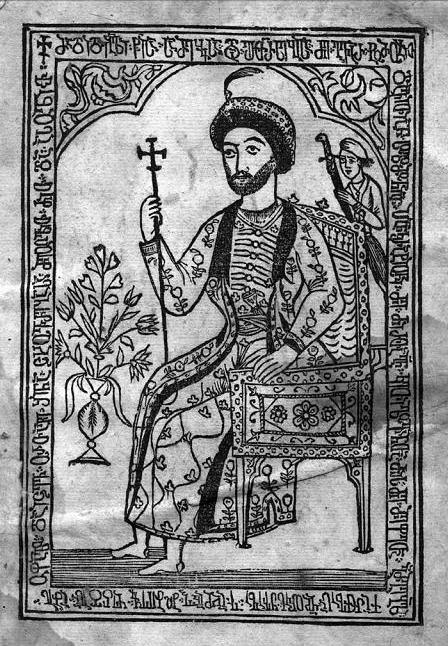 A portrait of Vakhtang VI of Kartli. A page from the Gospels printed in Tbilisi in 1709 under the auspices of Vakhtang VI of Kartli